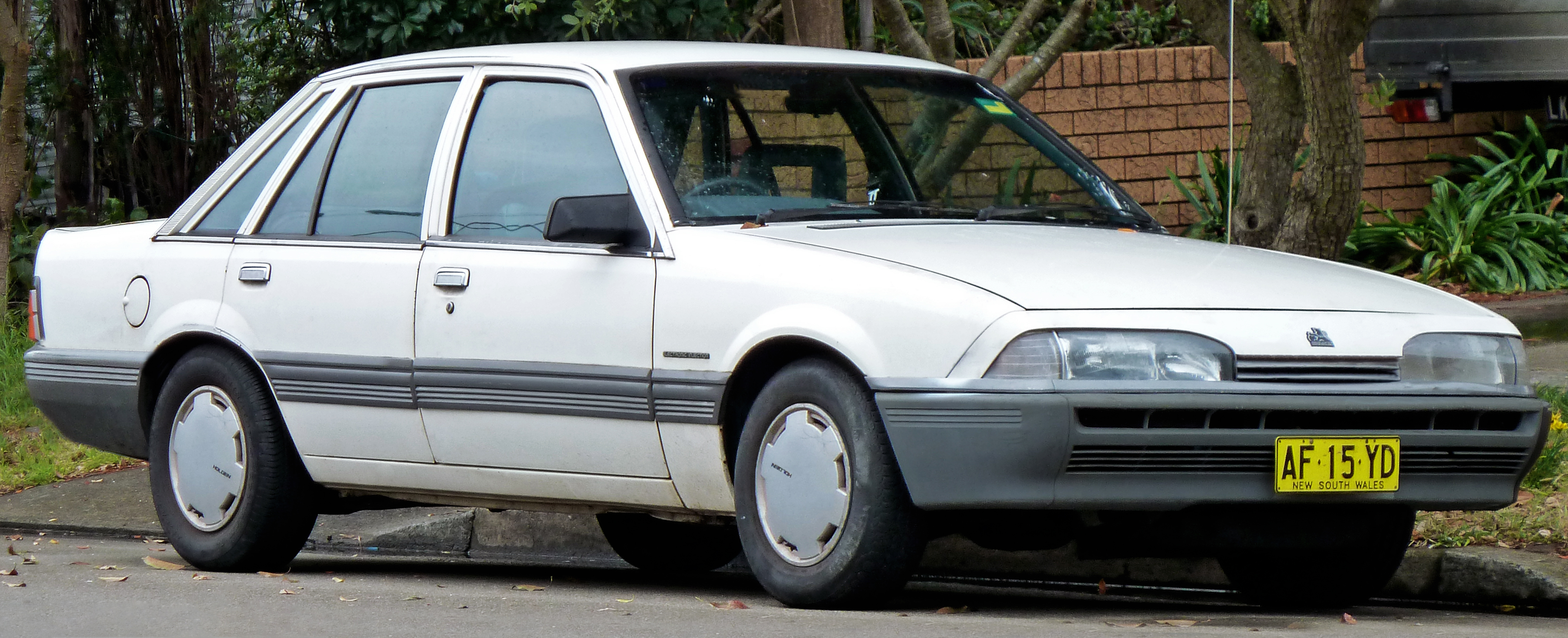 1986 Holden Commodore (VL) Executive sedan. Photographed in Sans Souci, New South Wales, Australia.